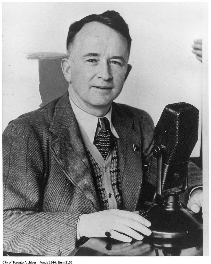 Publicity photo of Gregory Clark, circa 1935.